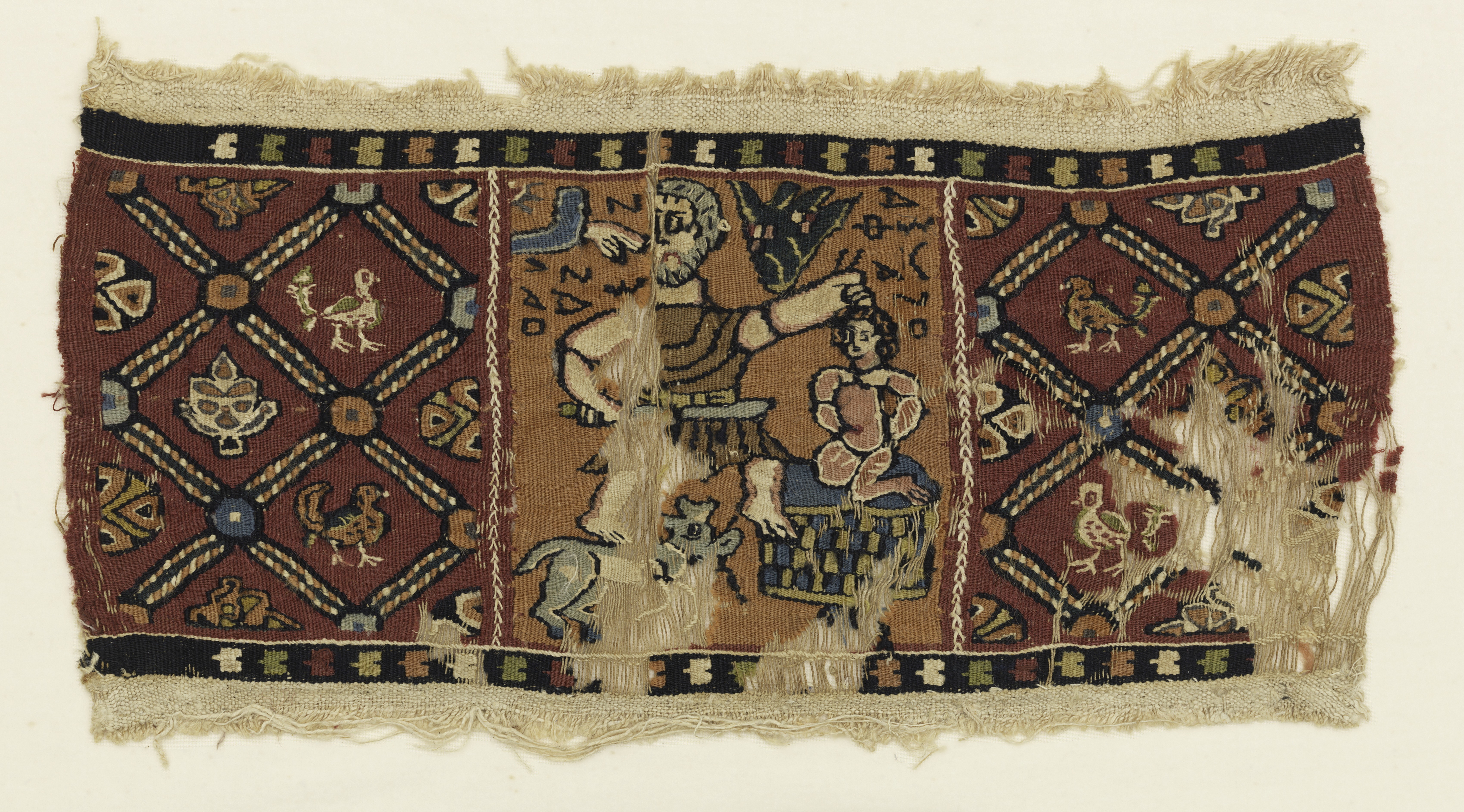 Band divided into three sections. The central section shows a scene of Abraham about to sacrifice Isaac. The hand of God comes in from the upper left. Geometric pattern on either side.